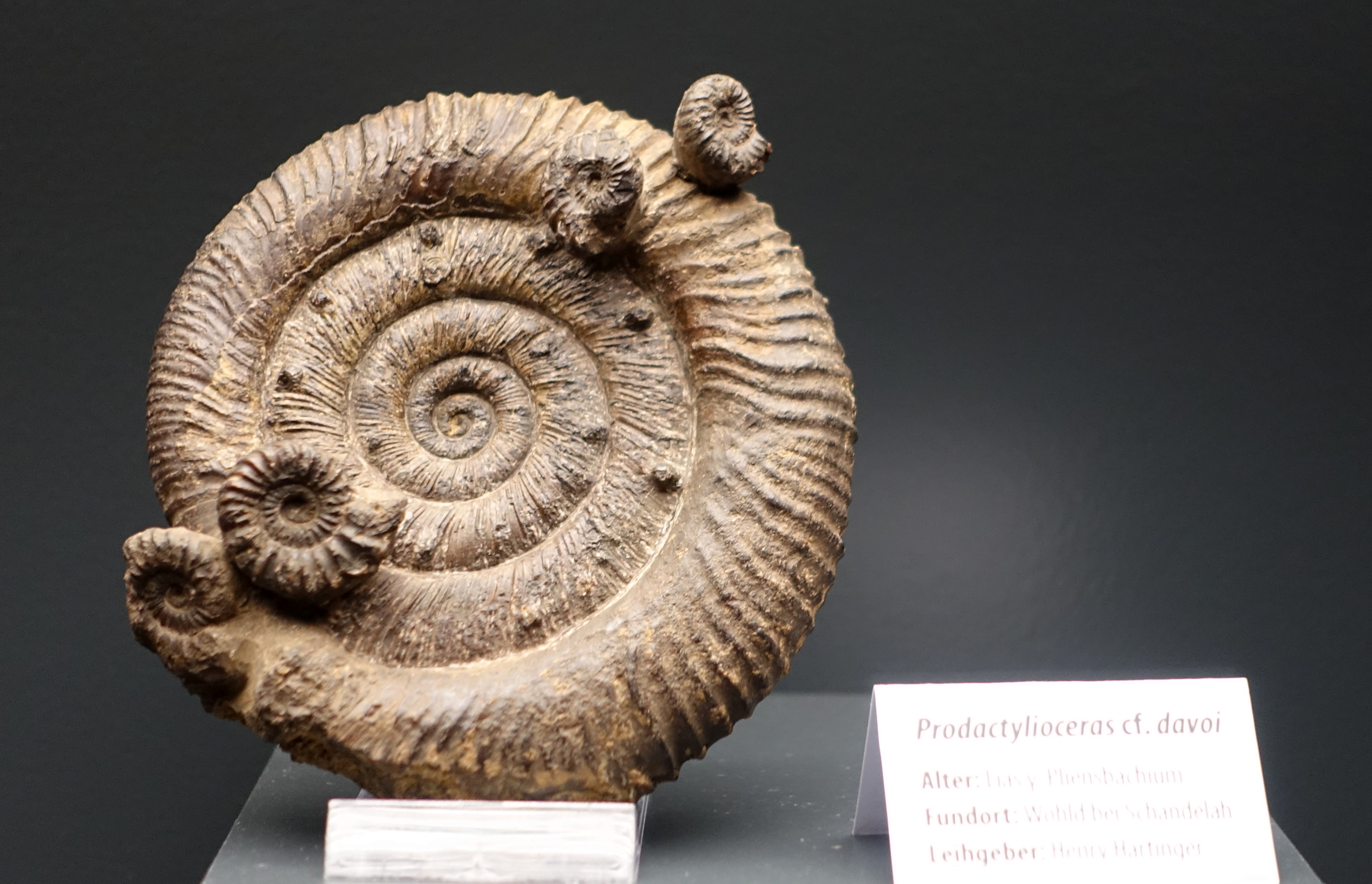 Exhibit in the Naturhistorisches Museum, Braunschweig, Germany.